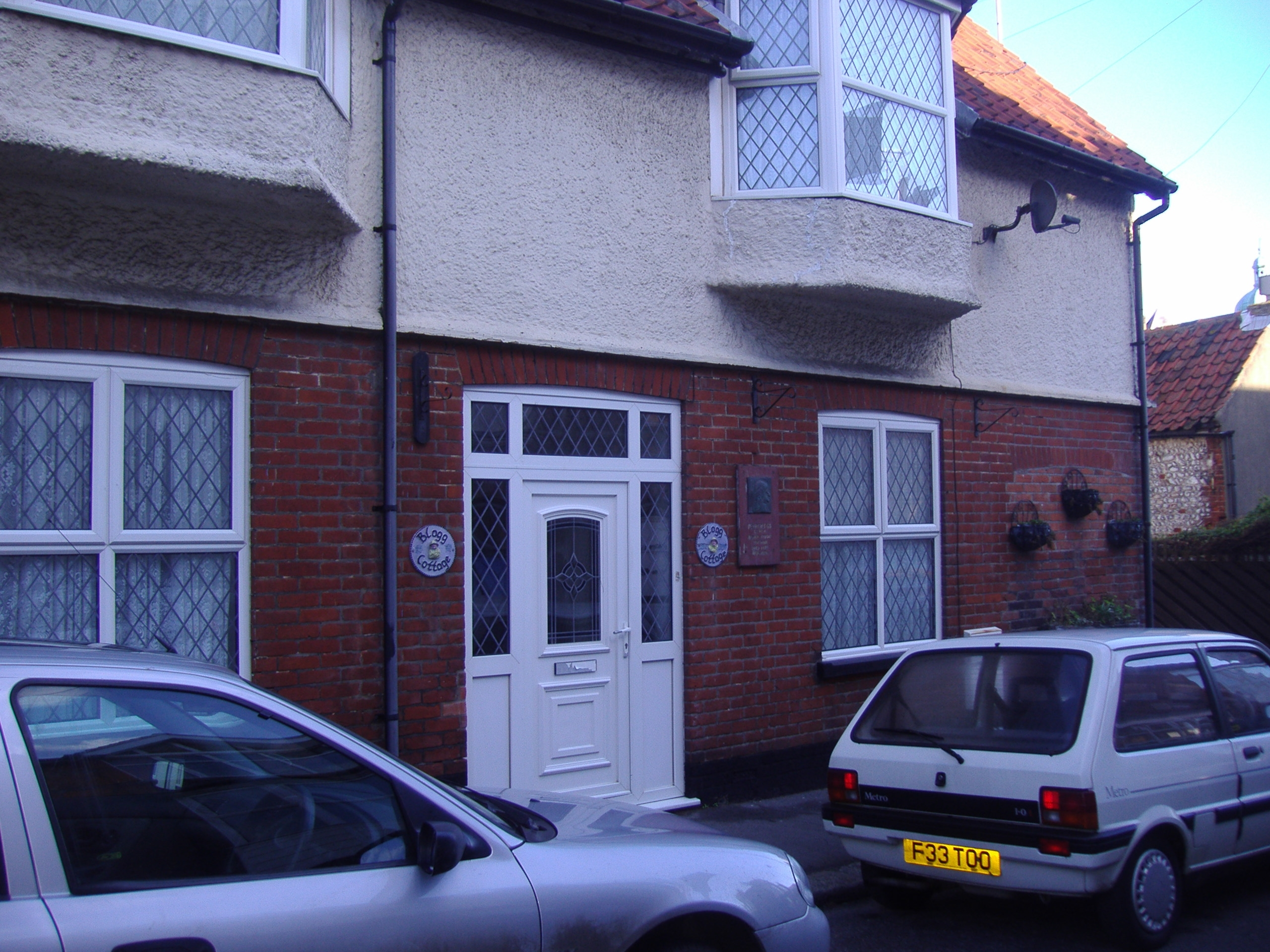 A Digital Photograph of the Home of Henry Blogg of Cromer taken on the 12th January 2008 by Stavros1 (talk) 19:51, 12 January 2008 (UTC)